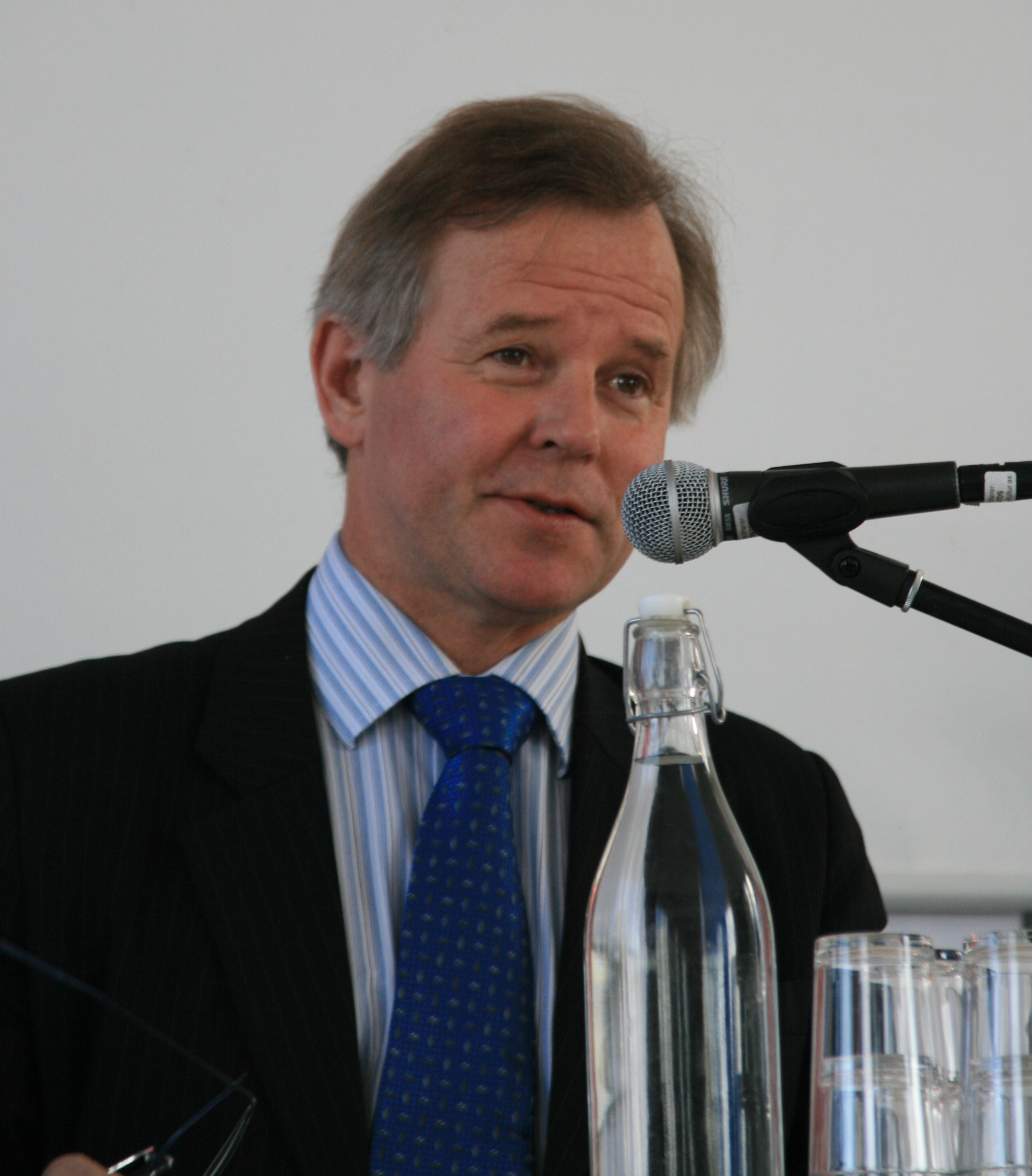 Ole Petter Ottersen (born 17 March 1955) is a Norwegian professor of medicine. Rector of the University of Oslo 2009–present.